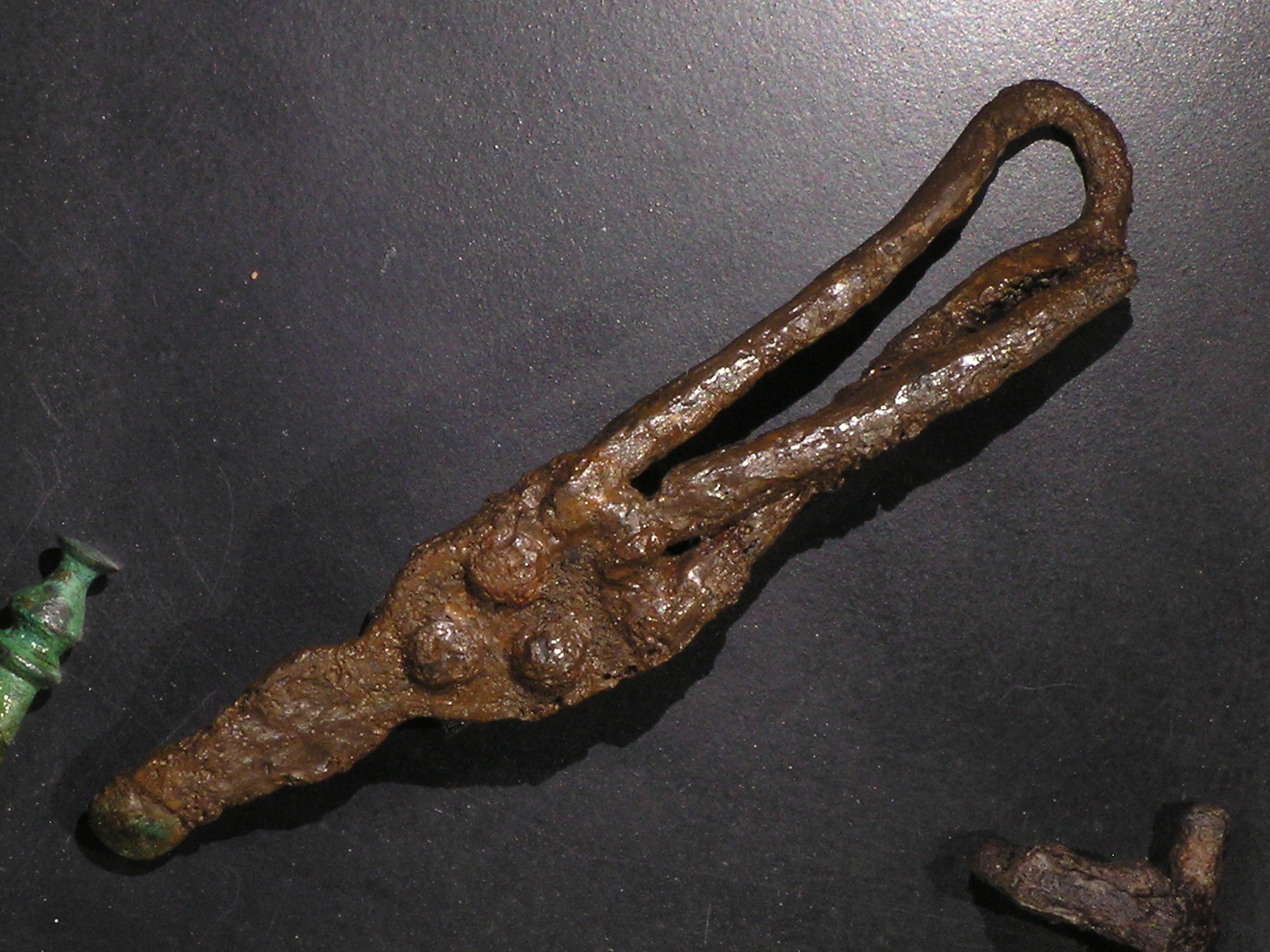 Belt buckle of the Lombard warrior's grave Putensen 150, dating to circa 50 AD, Gemeinde Salzhausen, Landkreis Harburg, Germany. Photographed at Archaeological Museum Hamburg, Germany.